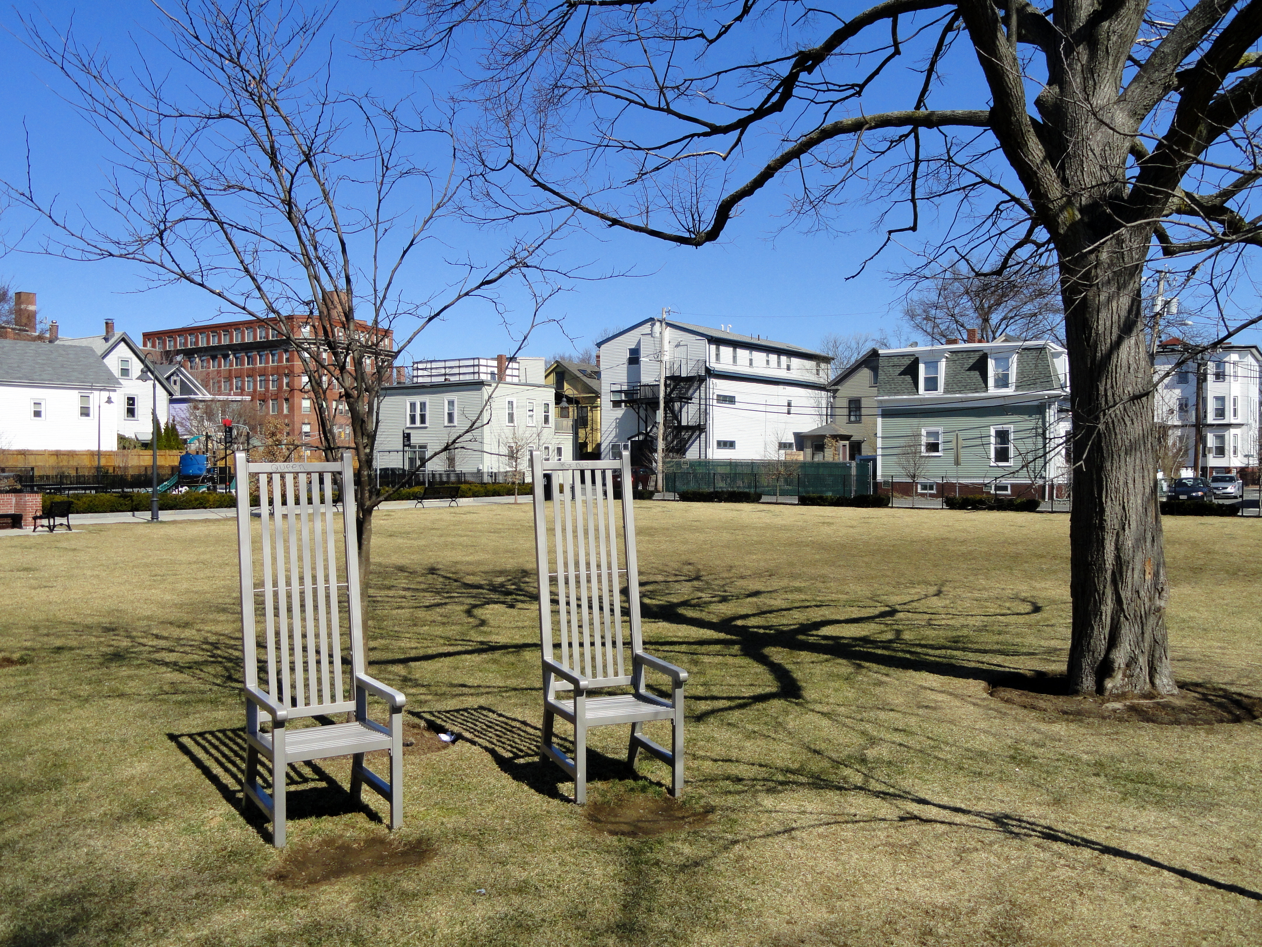 Greene-Rose Heritage Park, 238 Broadway, Cambridge, Massachusetts, USA.